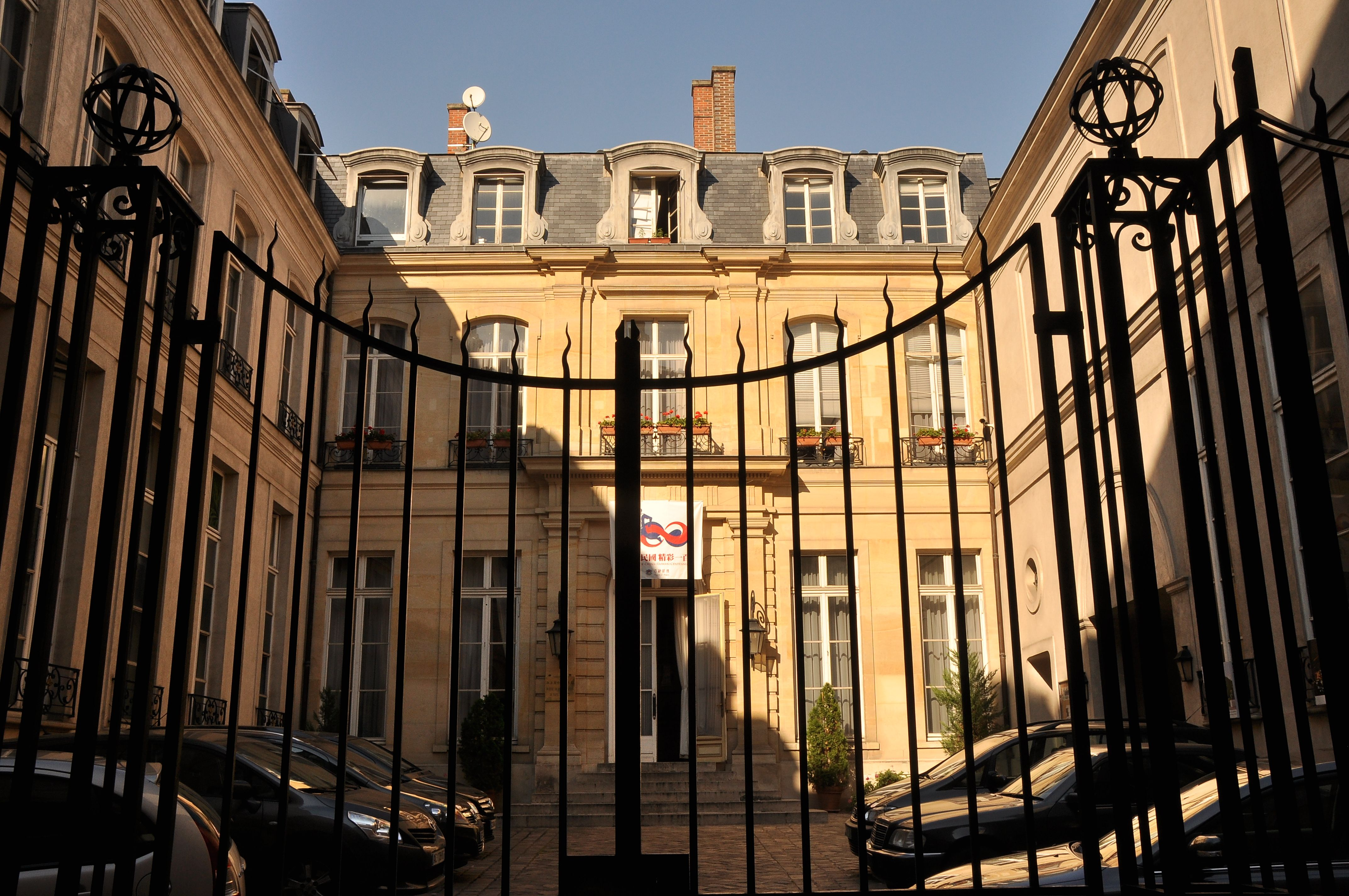 Hôtel de Laubespin located at 78 rue de l'Université in Paris 7th district, France